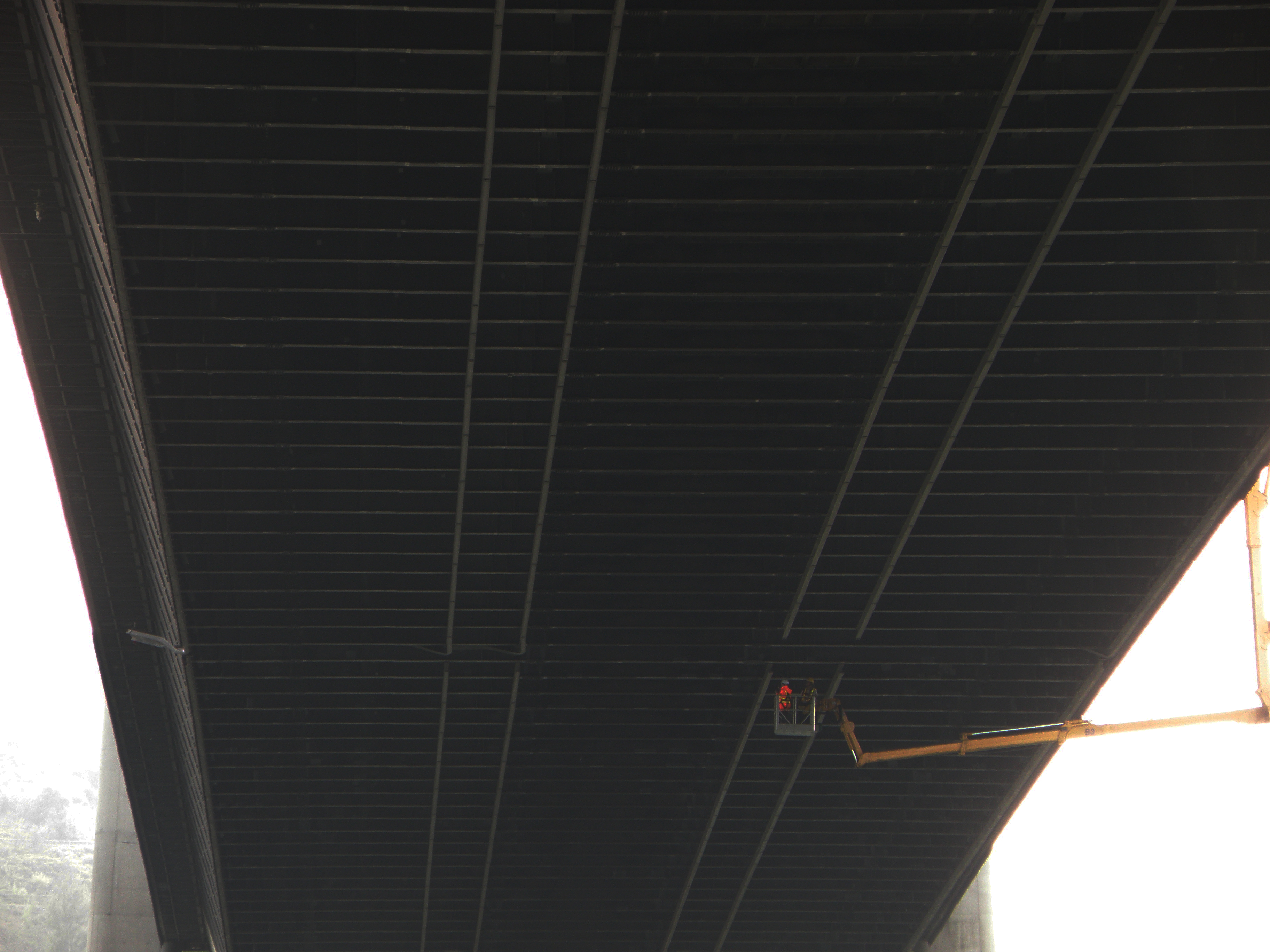 Kap Shui Mun Bridge in Ma Wan, Hong Kong.